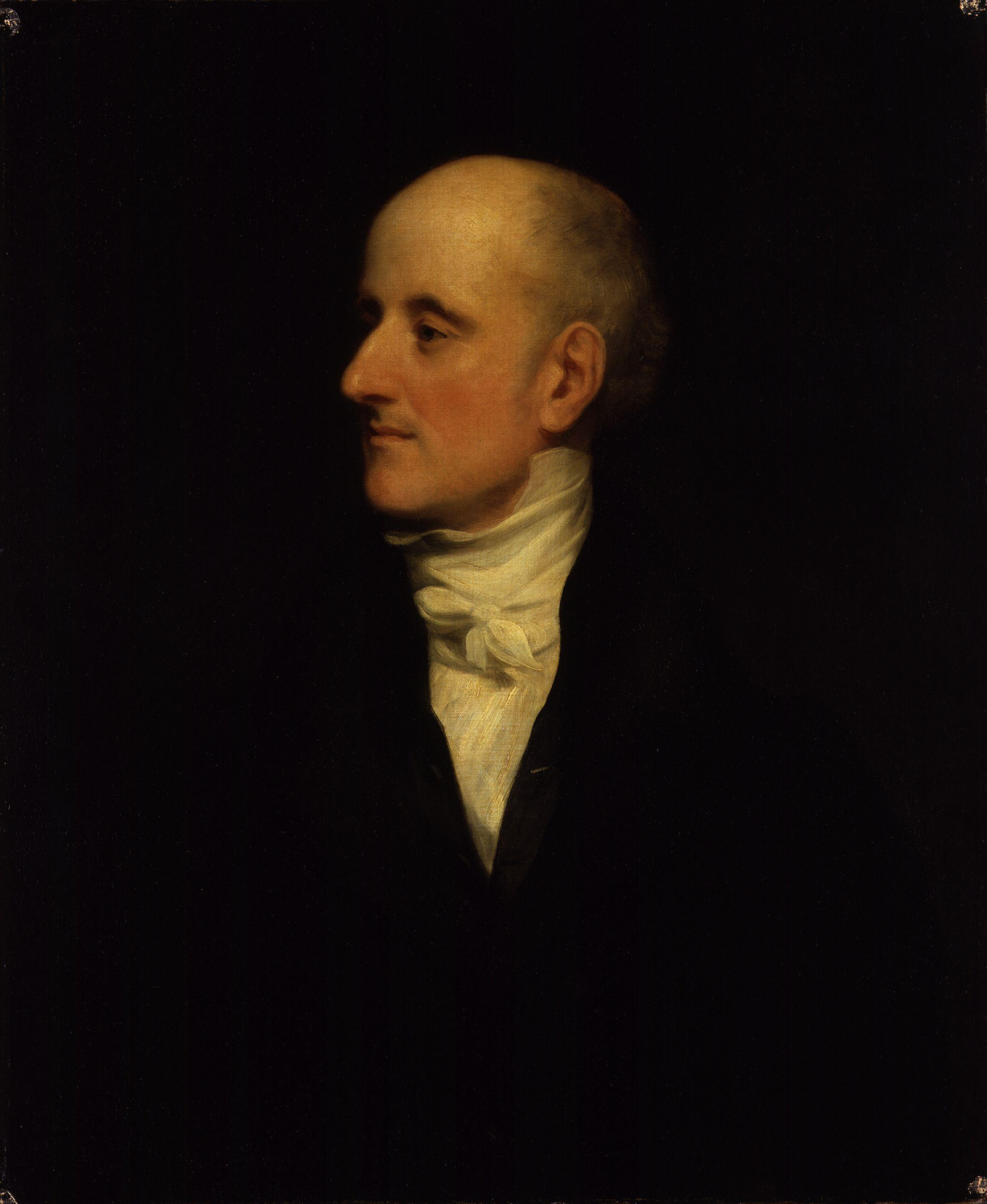 Sir Francis Burdett, 5th Bt, by Thomas Phillips (died 1845), given to the National Portrait Gallery, London in 1858. All images in this batch have been confirmed as author died before 1939 according to the official death date listed by the NPG.